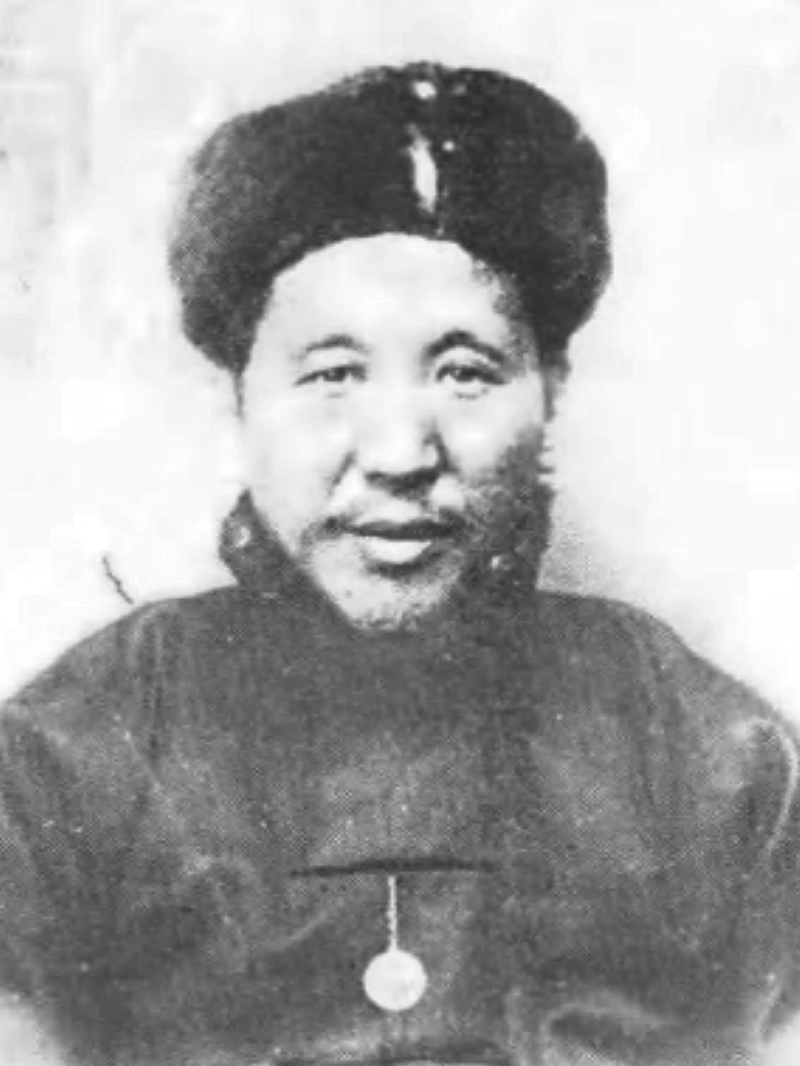 Li Jingxi, Chinese politician in early 20th century